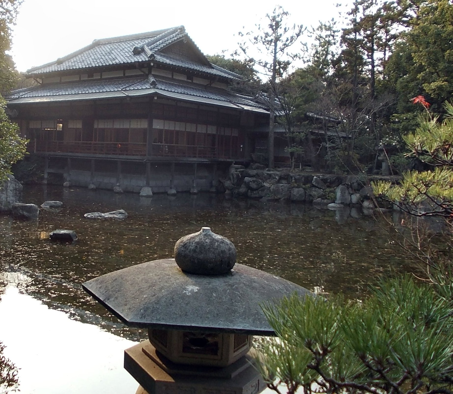 Yusentei Park, Jonan-ku, Fukuoka, Japan. Taken on 03 January 2012.